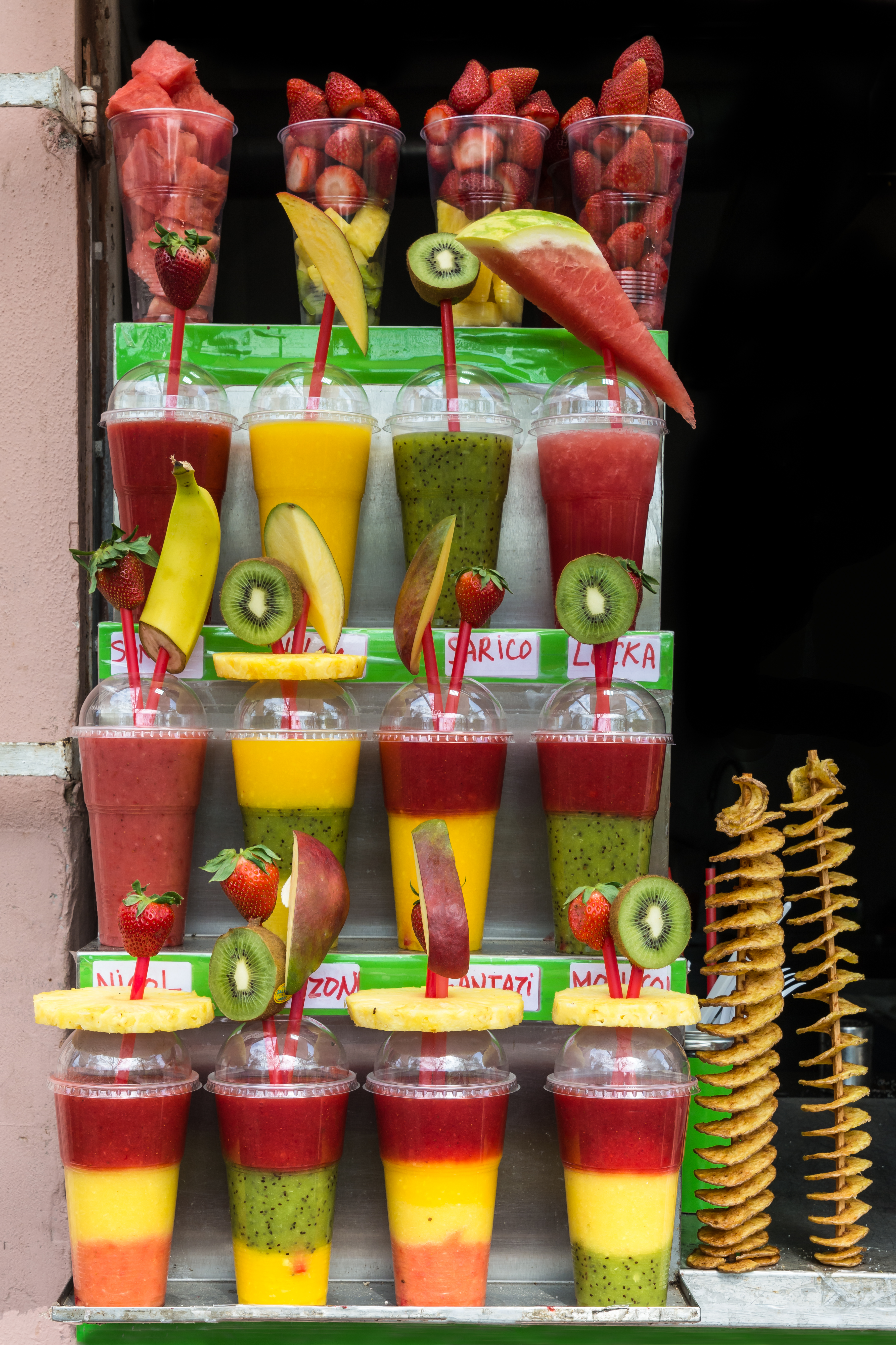 Various kinds of smoothies on display at Bistro Zámecké schody, Malá Strana, Prague, Czech Republic